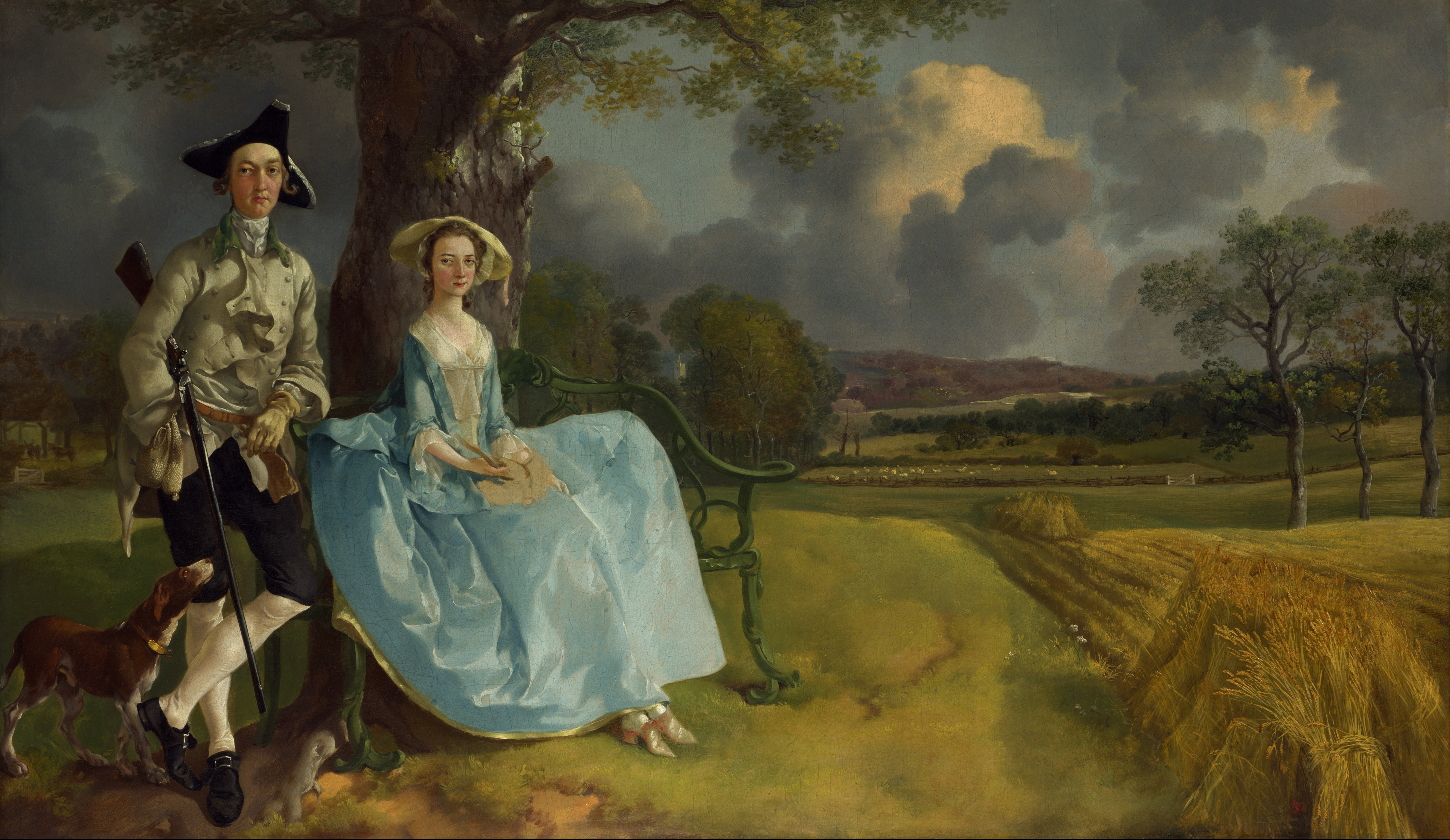 Robert Andrews of the Auberies and Frances Carter of Ballingdon House after the marriage.